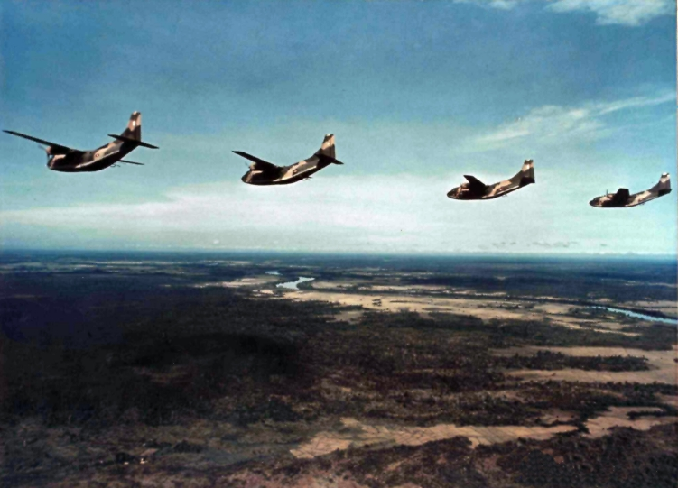 Four U.S. Air Force Fairchild UC-123B Provider spray aircraft used in "Operation Ranch Hand" over Vietnam.